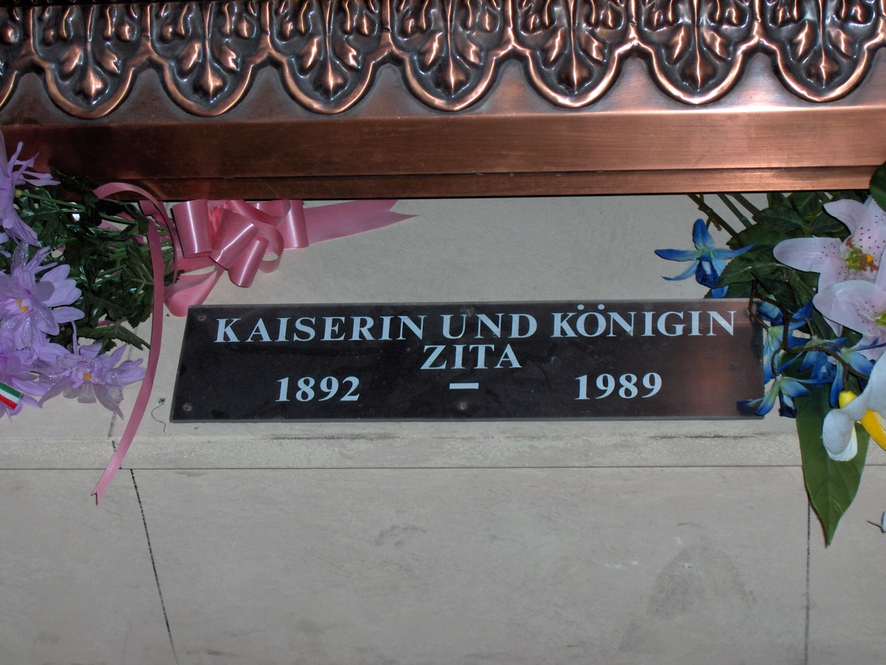 Tomb of Empress Zita of Bourbon-Parma (1892 - 1989); Kaisergruft, Vienna